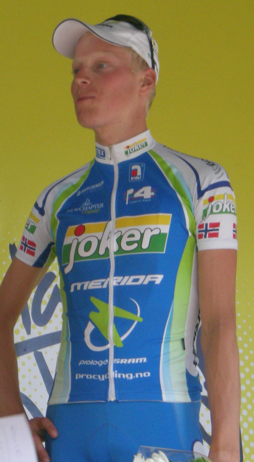 Christer Rake after winning the last stage in Tour of Norway 2011